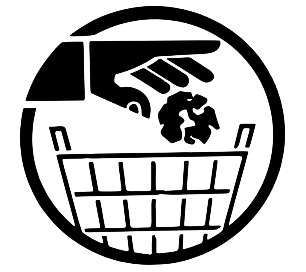 Image of trash can